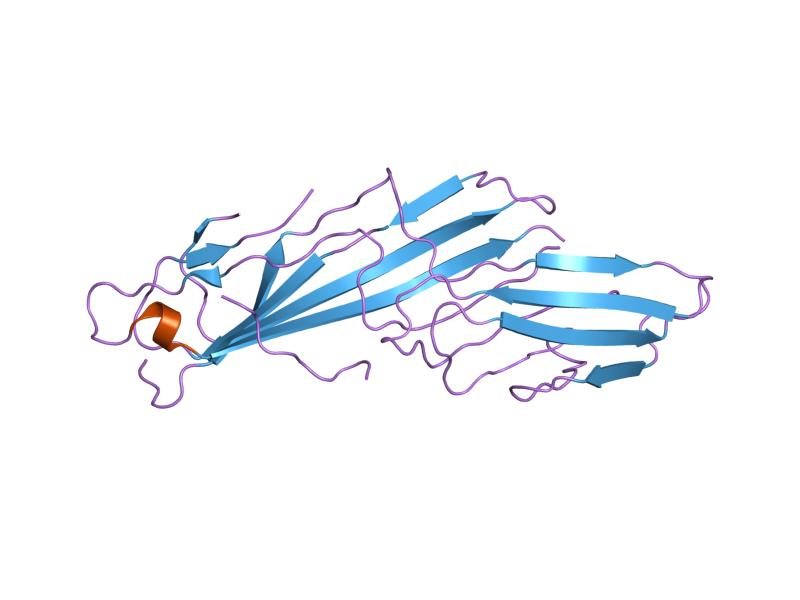 Cartoon representation of the molecular structure of protein registered with 1h6e code.